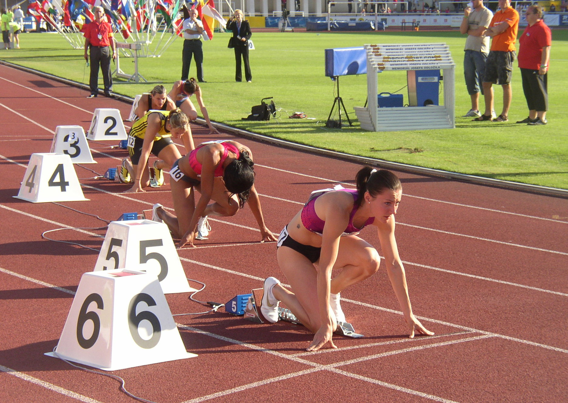 Athletes in starting blocks seconds before start of women's 200 m run at 17th edition of the Josef Odložil Memorial (EAA Premium Meeting, Na Julisce Stadium, Prague, Czech Republic, 14 June 2010). (270) Lenka Kršáková (SVK) (272) Lucie Škrobáková (CZE) (168) Isabel Le Roux (RSA) (169) Carol Rodríguez (PUR) (171) Denisa Rosolová (CZE)